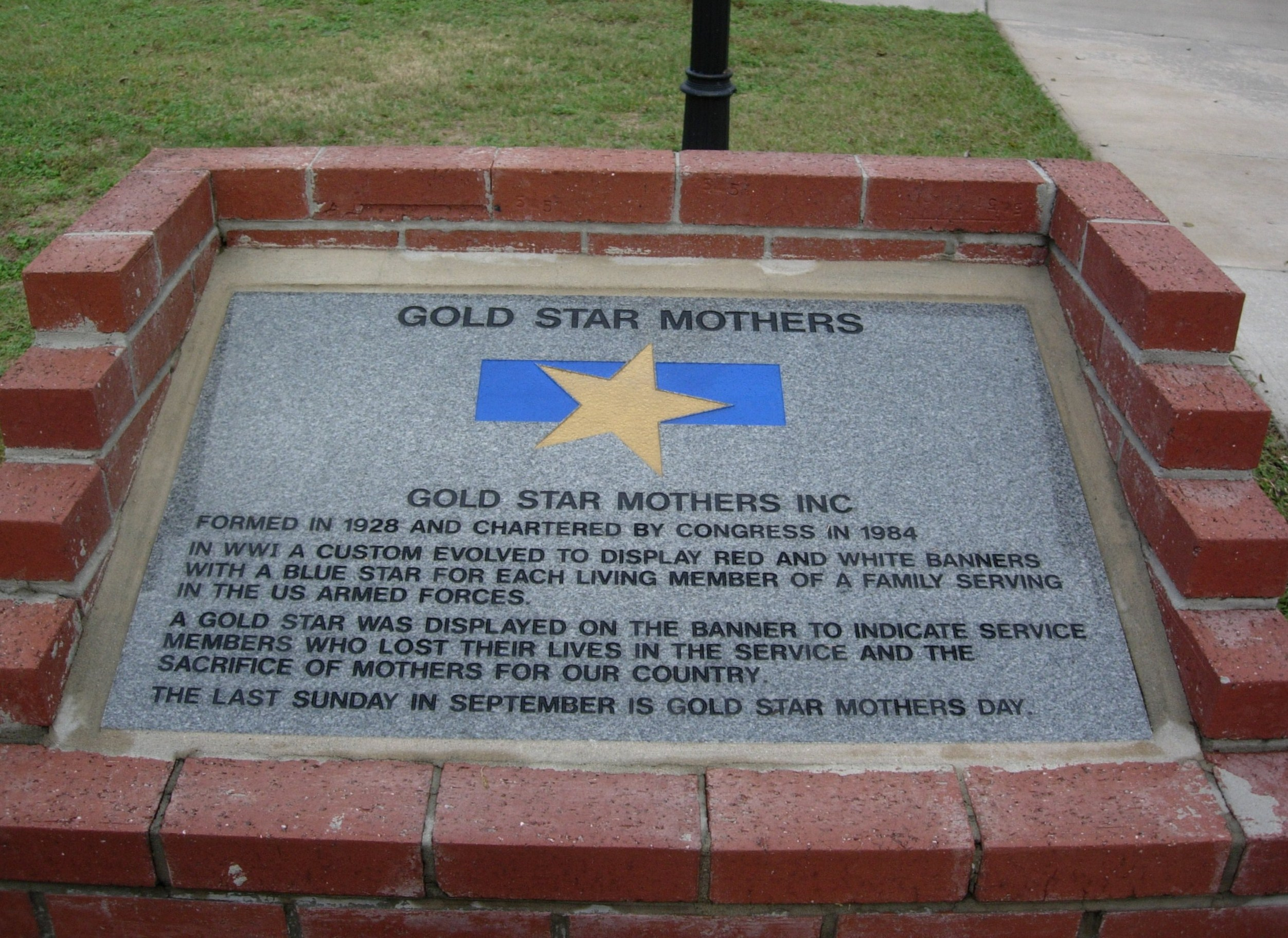 Gold Star Mothers moument Ocala Fl. Memorial Park